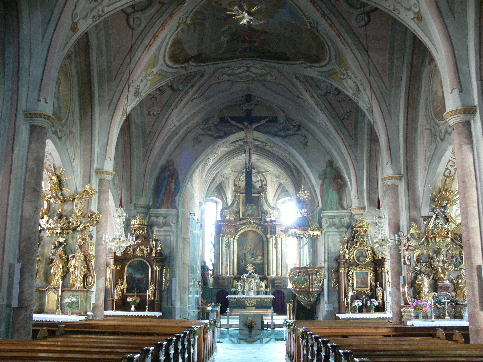 Oberwölz. Parish church St.Martin: Interior